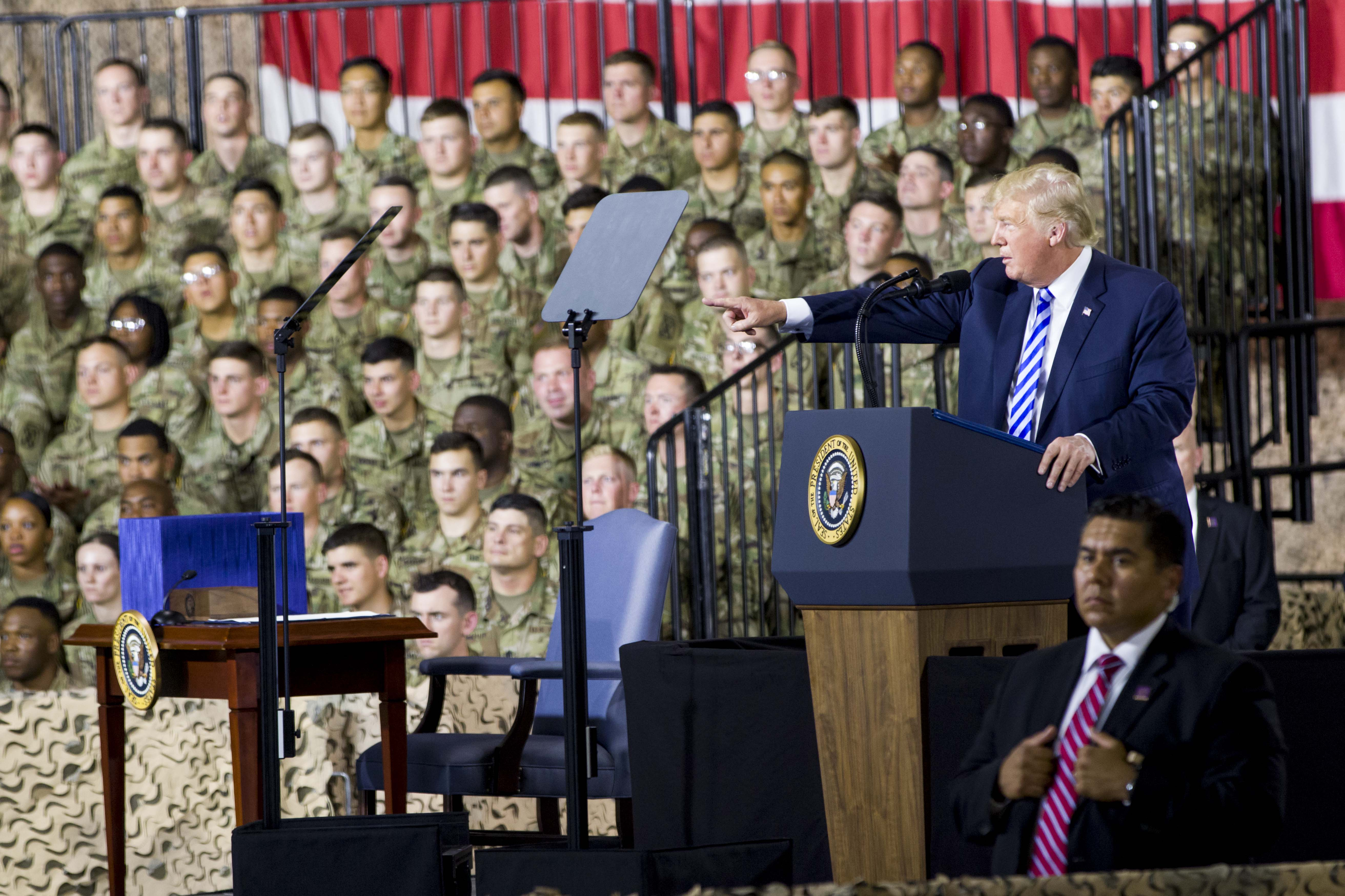 President Donald Trump speaks to Fort Drum Soldiers and personnel during a signing ceremony for the fiscal year 2019 National Defense Authorization Act, Aug. 13, 2018.